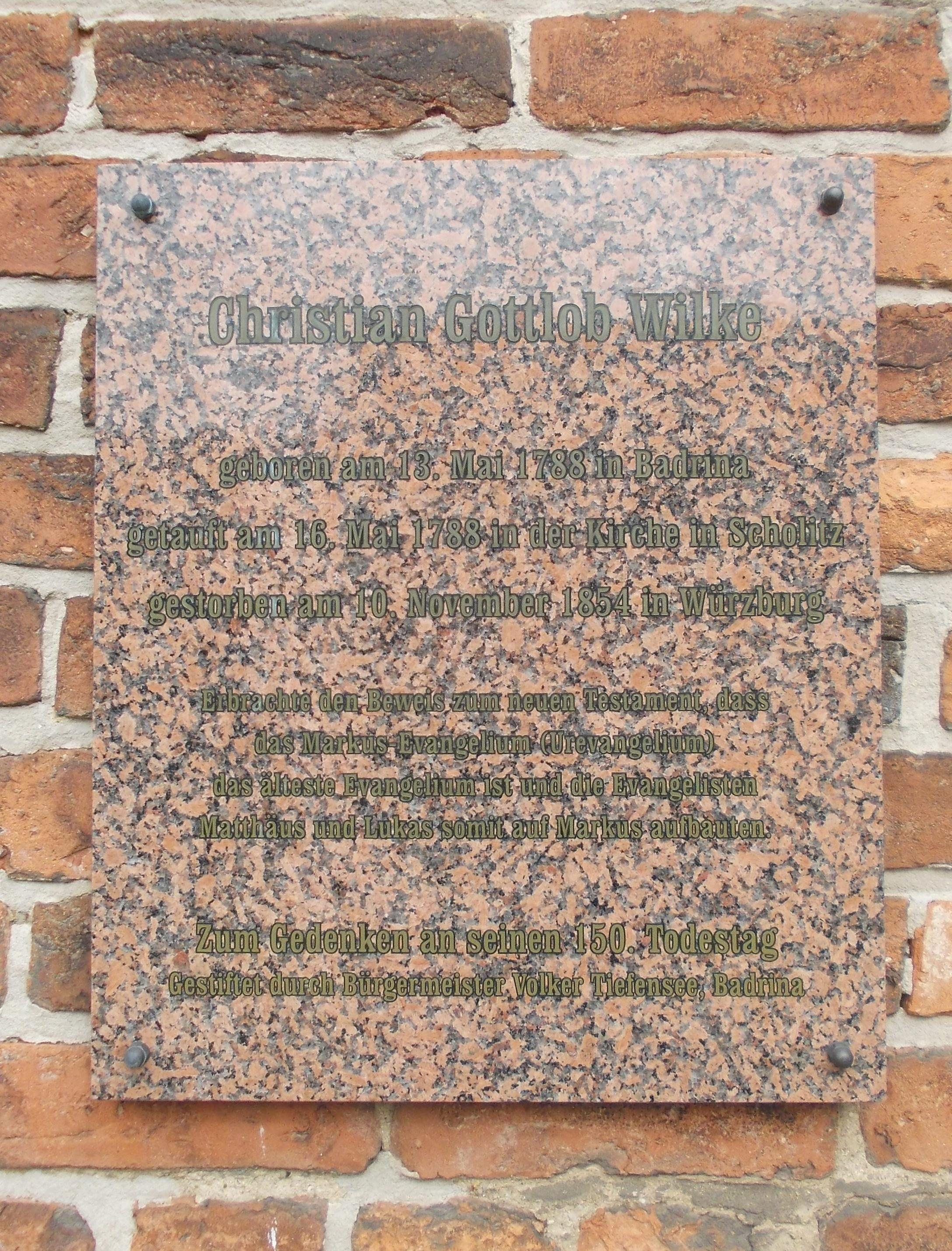 Scholitz church (Schönwölkau, Nordsachsen district, Saxony), memorial plaque to the theologian Christian Gottlob Wilke who was baptized here.